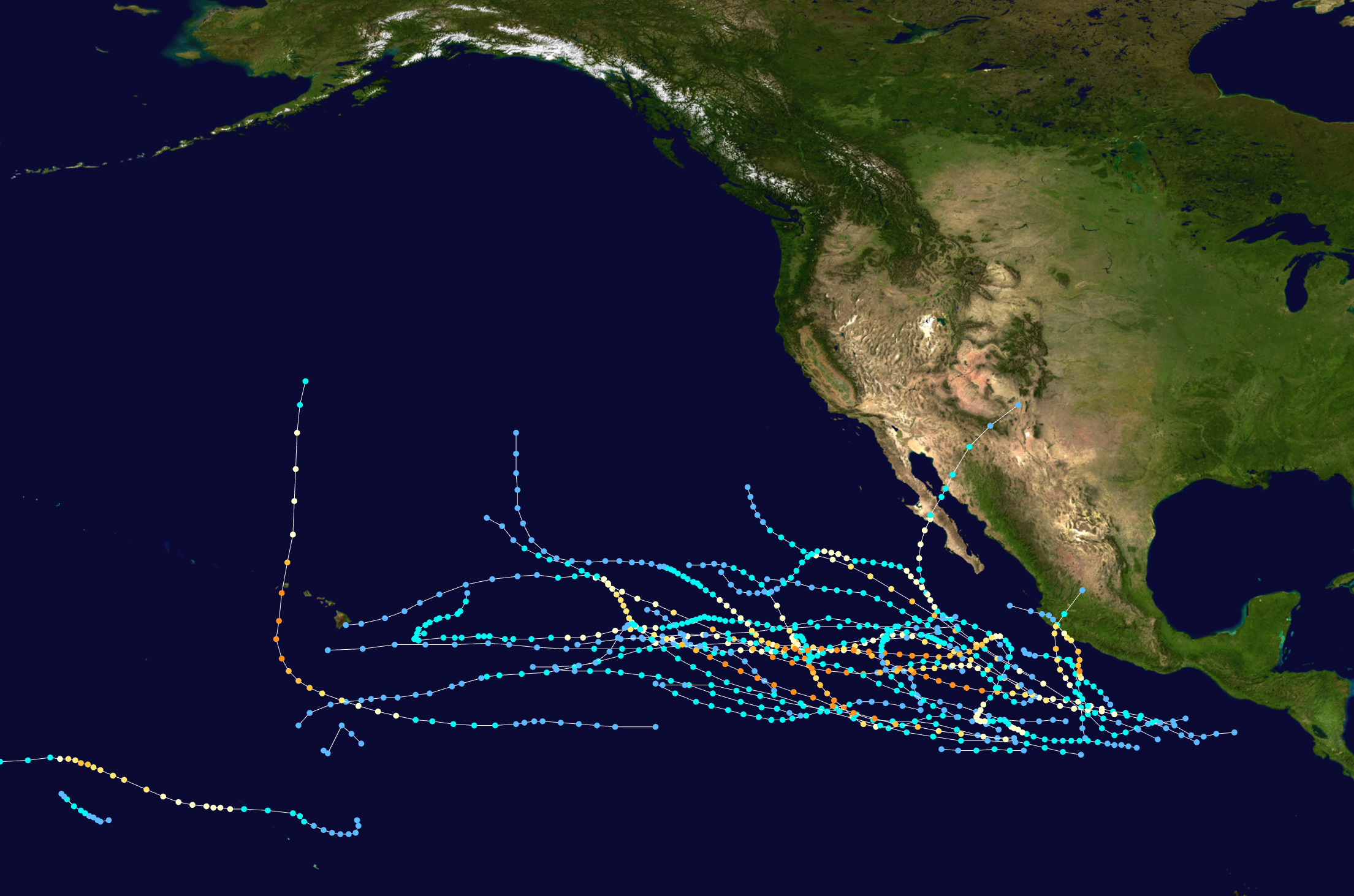 This map shows the tracks of all tropical cyclones in the 1992 Pacific hurricane season. The points show the location of each storm at 6-hour intervals. The colour represents the storm's maximum sustained wind speeds as classified in the Saffir-Simpson Hurricane Scale (see below), and the shape of the data points represent the type of the storm. Saffir–Simpson scale Tropical depression≤38 mph≤62 km/h Category 3111–129 mph178–208 km/h Tropical storm39–73 mph63–118 km/h Category 4130–156 mph209–251 km/h Category 174–95 mph119–153 km/h Category 5≥157 mph≥252 km/h Category 296–110 mph154–177 km/h Unknown Storm typeTropical cycloneSubtropical cycloneExtratropical cyclone / Remnant low / Tropical disturbance